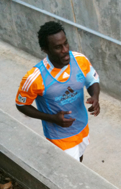 Before the game against NE Revolution (25-Jul-09)